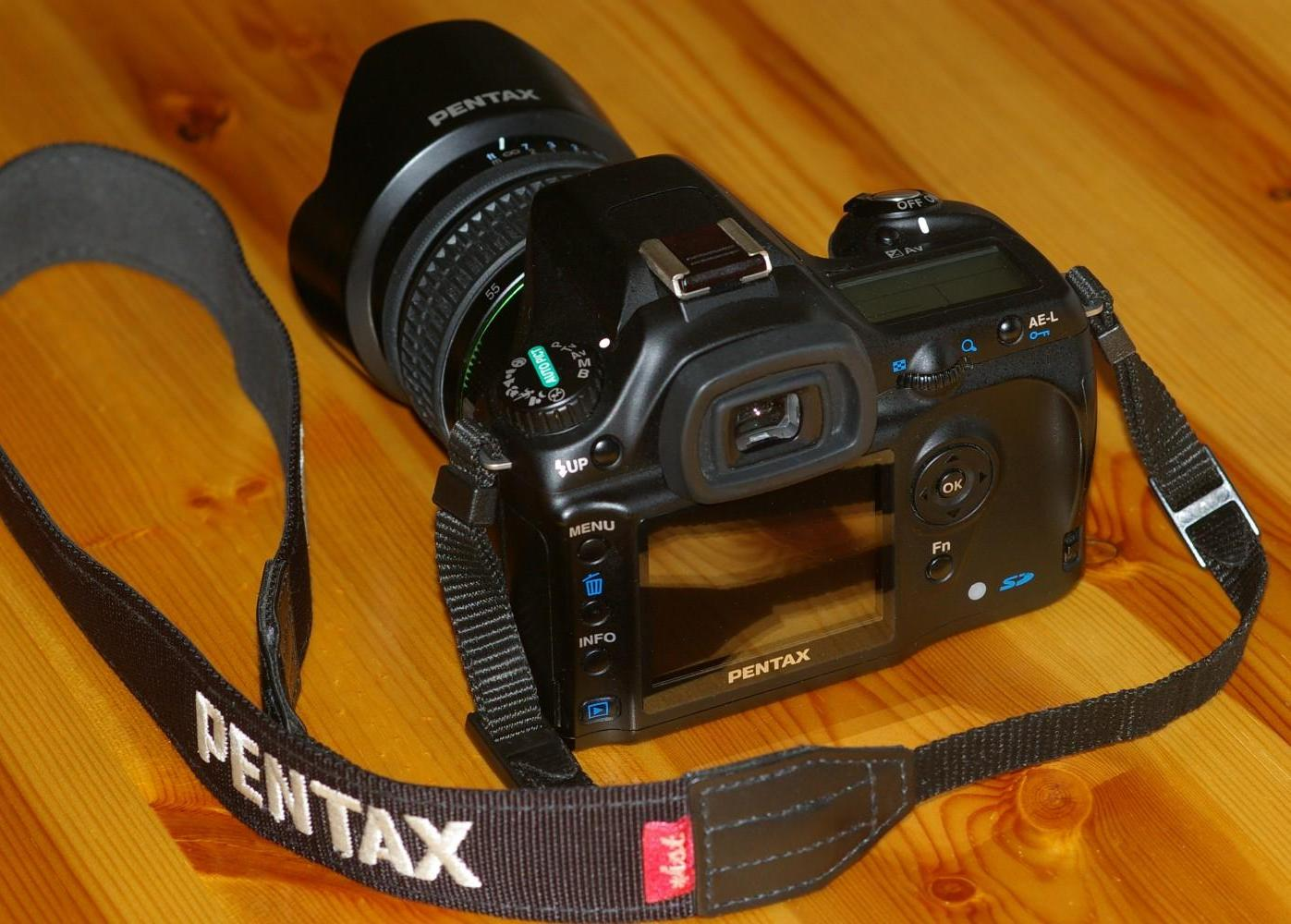 The digital reflex camera Pentax *istDL with kit zoom Pentax smc DA 18-55 mm / 3.5~5.6 AL.